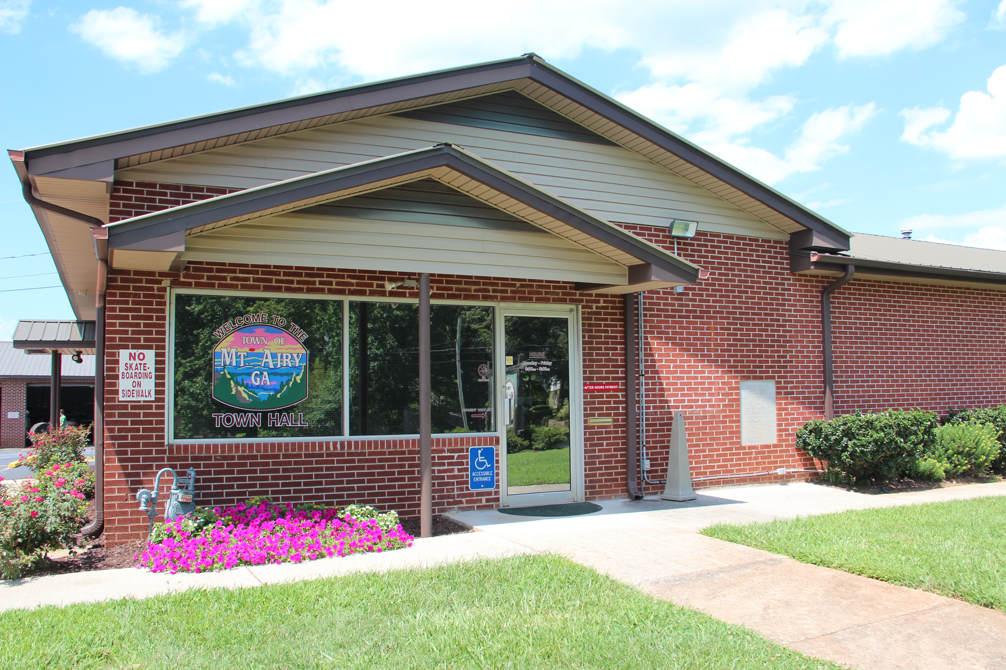 Mount Airy, Georgia City Hall